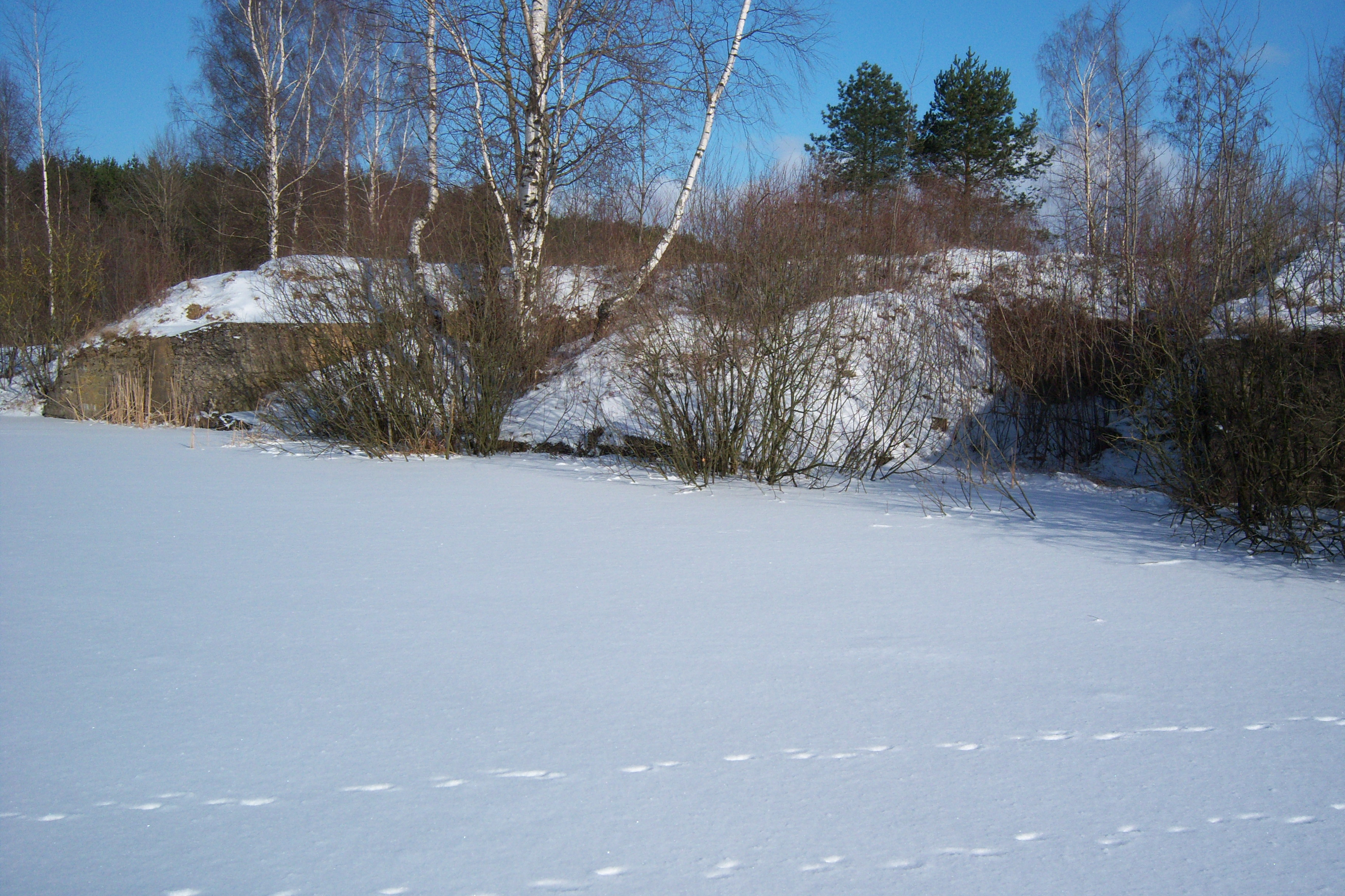 Palemonas Fort, Kaunas, Lithuania